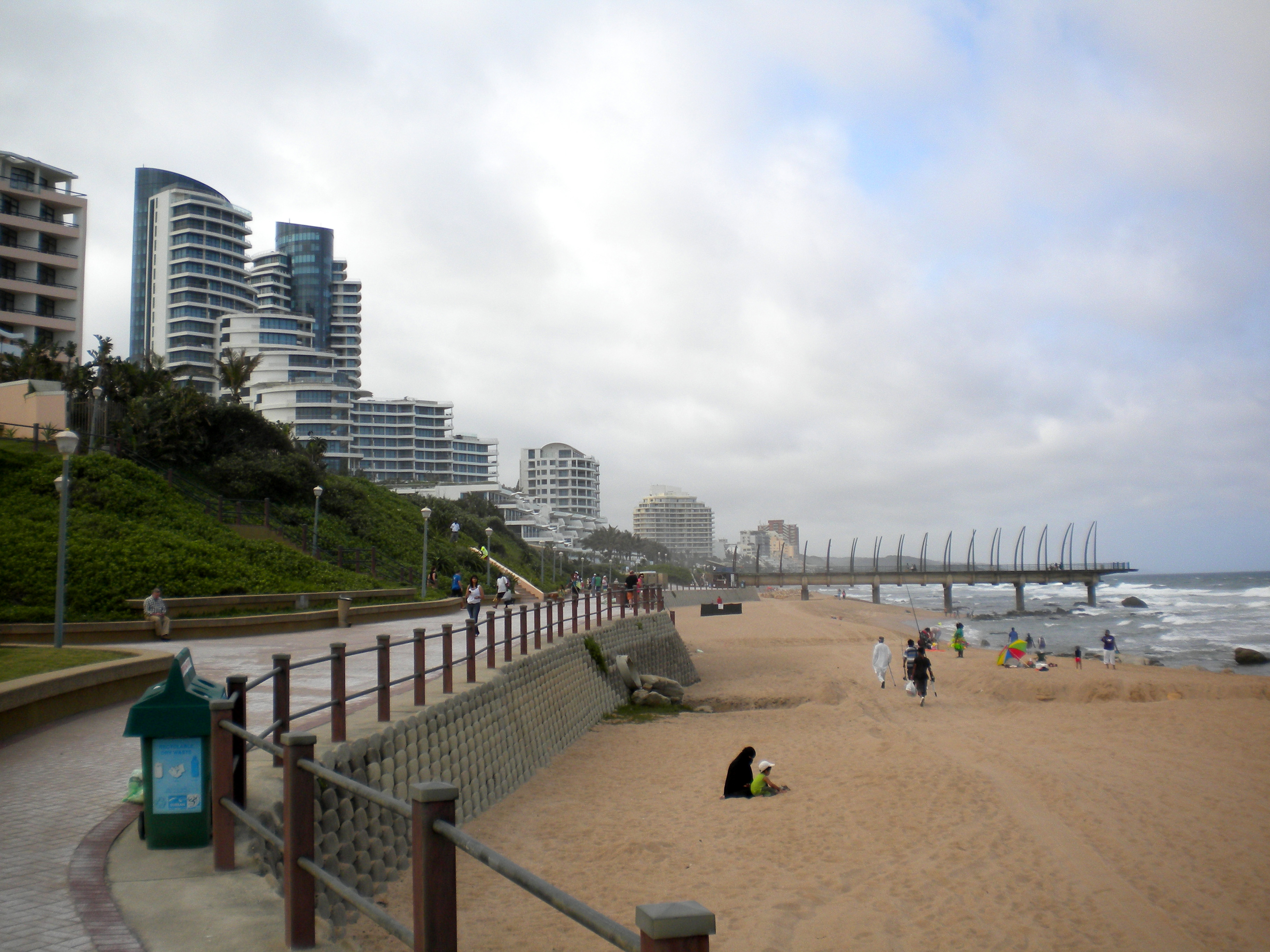 Umhlanga Rocks and its pier as viewed from the beachfront